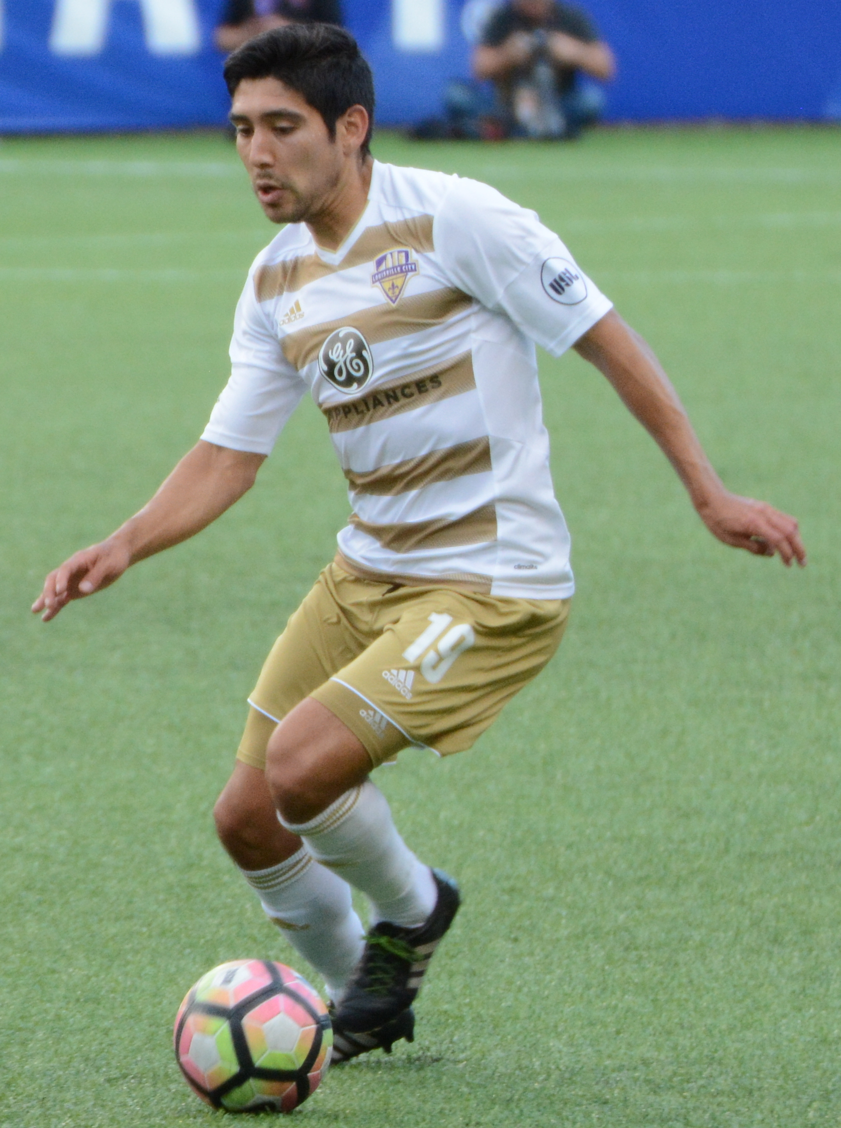 Niall McCabe, Matt Bahner, Oscar Jimenez Taken at a Lamar Hunt U.S. Open Cup match between FC Cincinnati and Louisville City FC at Nippert Stadium in Cincinnati, Ohio on May 31, 2017.